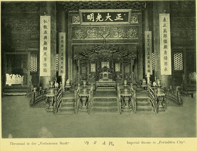 old photo from China 1900-1903, see the file's name for detail.